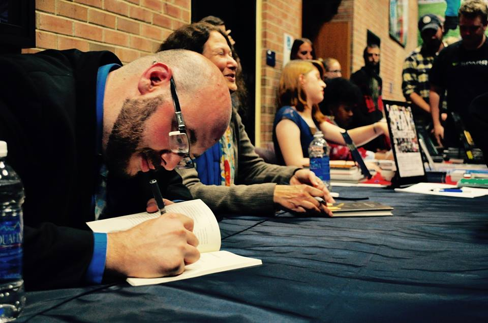 Matthew Minicucci and Jane Hirshfield sign copies of books after a reading at the Wick Poetry Center.